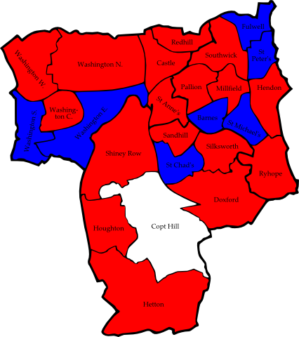 A map of the results of the 2007 Sunderland Council election. Colour legend by wards won: Labour party Conservative party Independent